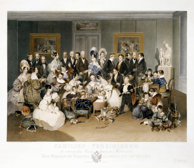 Family portrait of Karoline Auguste, the fourth wife of Holy Roman Emperor Franz II. of Austrialabel QS:Len,"Family portrait of Karoline Auguste, the fourth wife of Holy Roman Emperor Franz II. of Austria" label QS:Lde,"Familienporträt der Kaiserin Karoline Auguste"